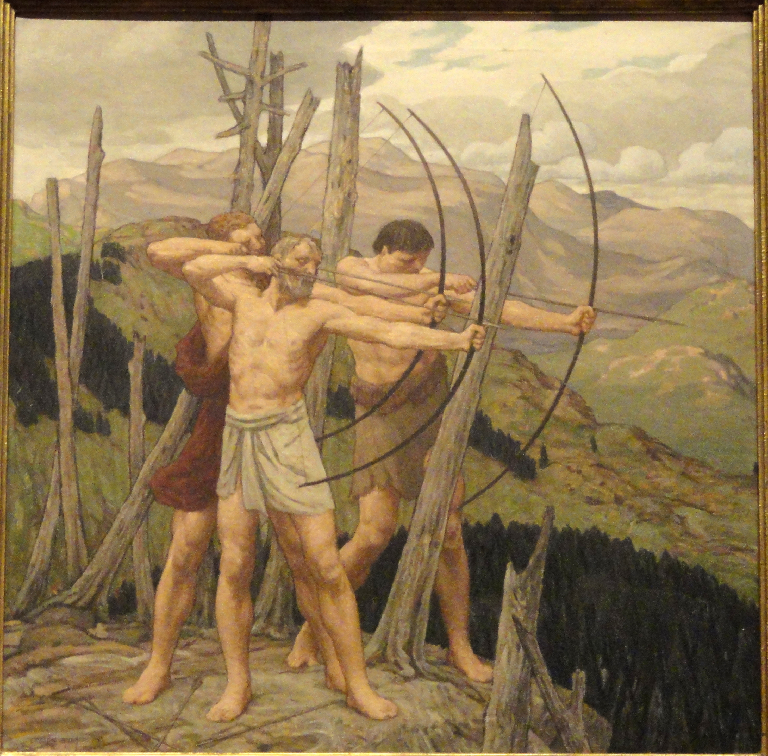 Painting exhibited in the Renwick Gallery, Washington, DC, USA. This artwork is in the public domain because the artist died more than 70 years ago.